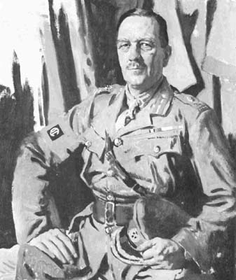 Major-General Sir H. E. Burstall. 1917-18. Sir Henry Edward Burstall (1870-1944) was born at Quebec, 26 August 1870, the son of John B. Burstall and Fanny Bell Forsyth. He was educated at Bishop's College, Lennoxville, and the Royal Military College, Kingston. Artist: Sir William Orpen, British, 1878-1931 Oil on canvas, 36" x 30" (8676) Source: National Gallery of Canada